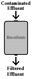 Diagram of a sorption column that uses biosorbents.